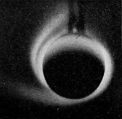 Kristian Birkeland's magnetised terrella simulating a spiral nebula.